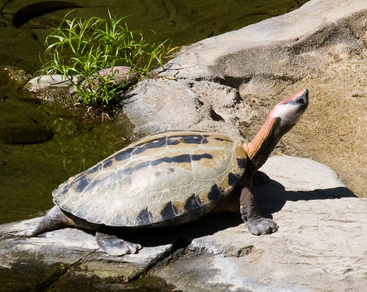 Turtle in San Diego Zoo. Species = Callagur borneoensis, male -B kimmel (talk) 16:48, 3 January 2012 (UTC)